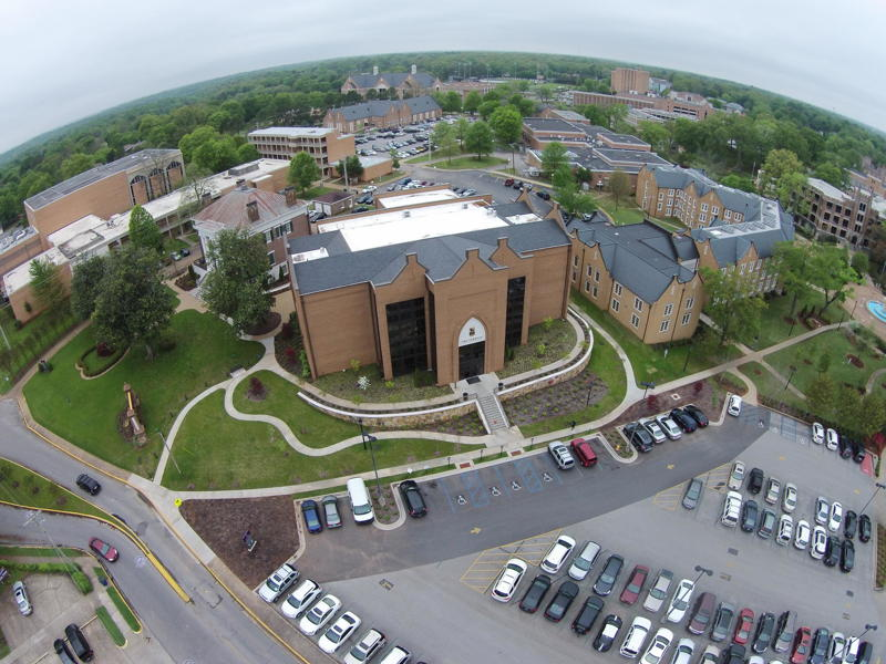 The Commons Building was completed in 2014 and is located between Rogers Hall and Keller Hall at the north end of Court Street. The $8 million complex houses the University Success Center, Student Financial Services, the UNA branch of Listerhill Credit Union, a campus bookstore, Starbucks and Chik-fil-A. The Commons Building was designed by Hugo Dante and Create Architects, and was built by Consolidated Construction.